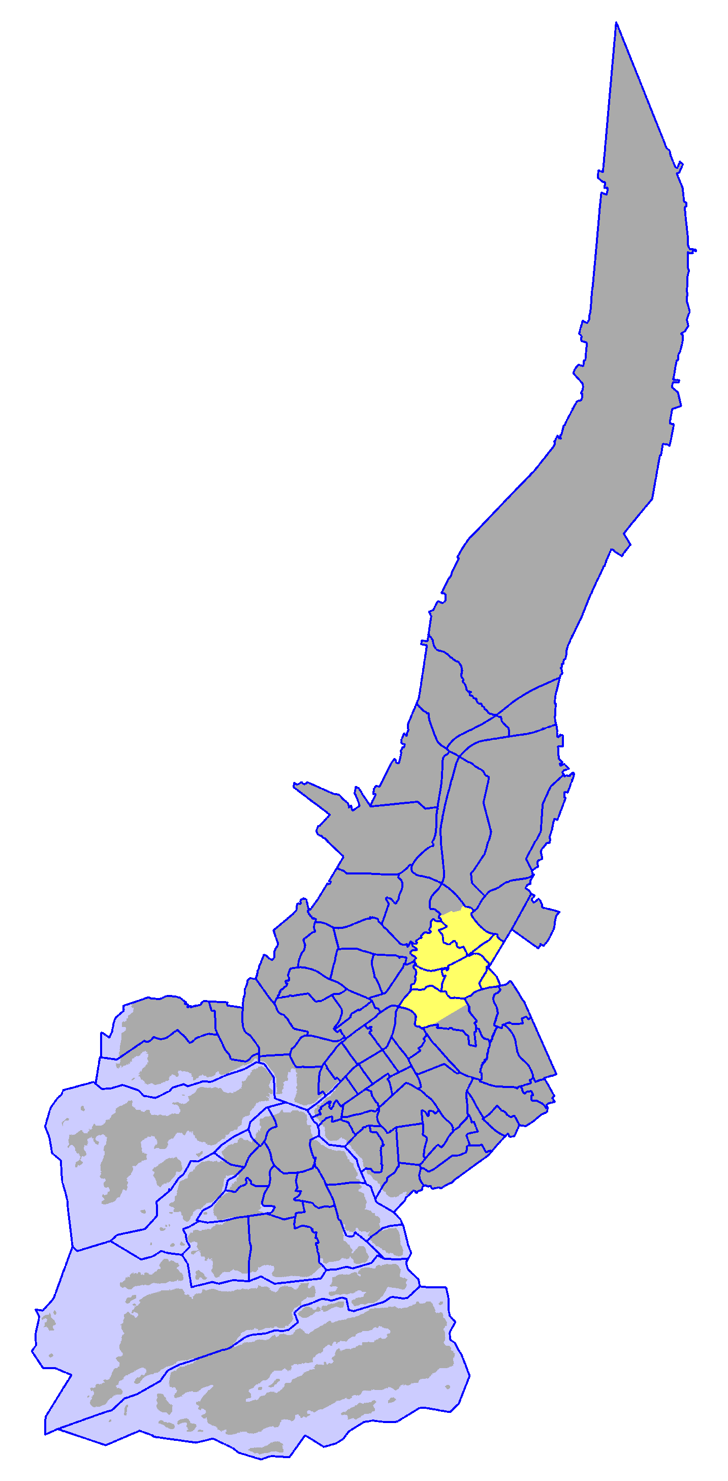 Ward of Koroinen, in Turku